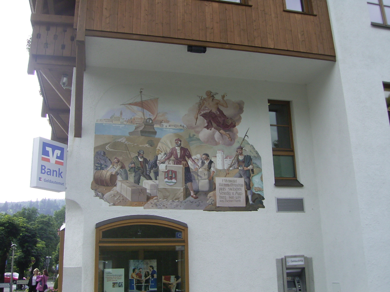 This pic shows a painted wall in Mittenwald